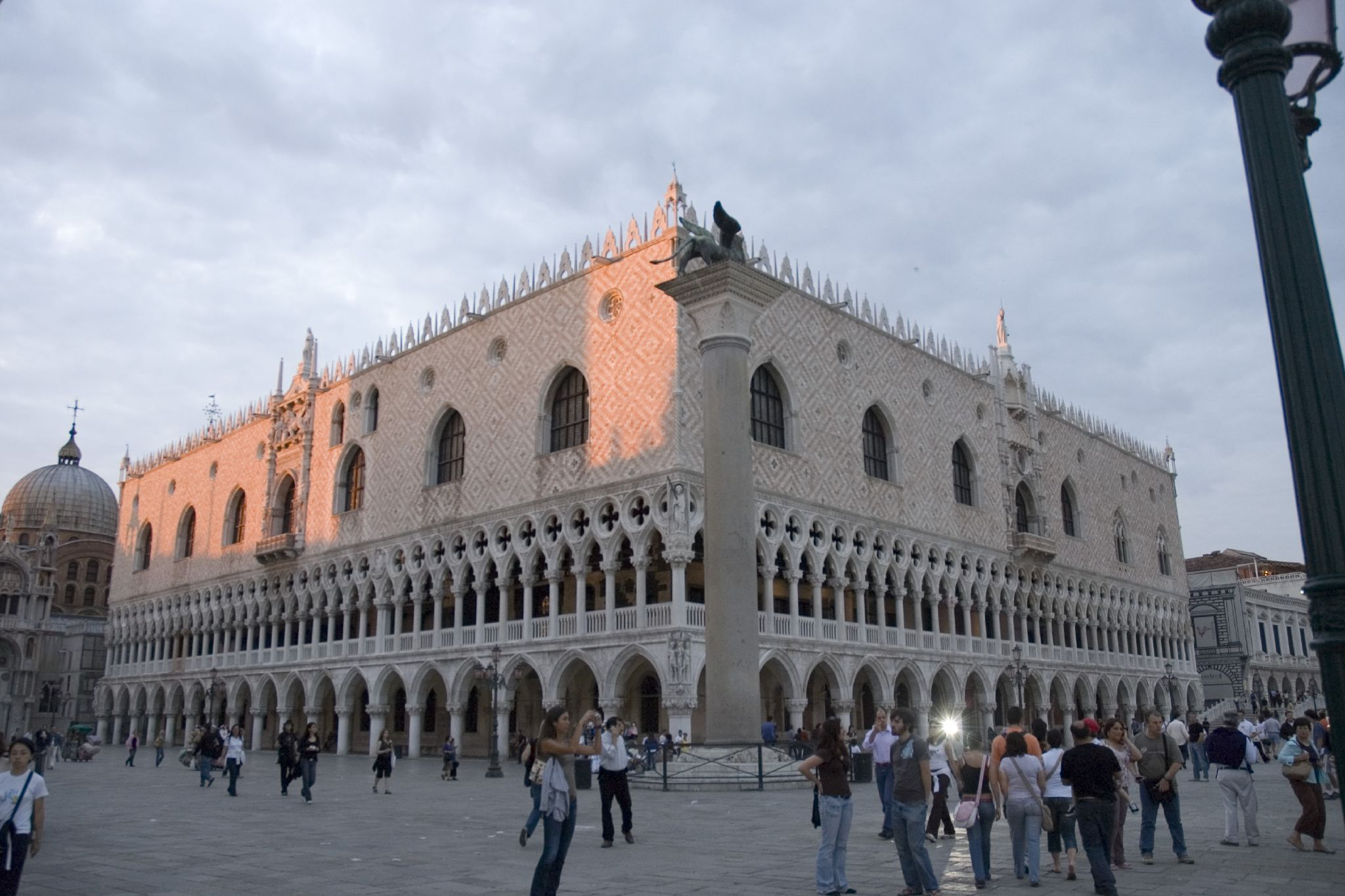 see abovesee above